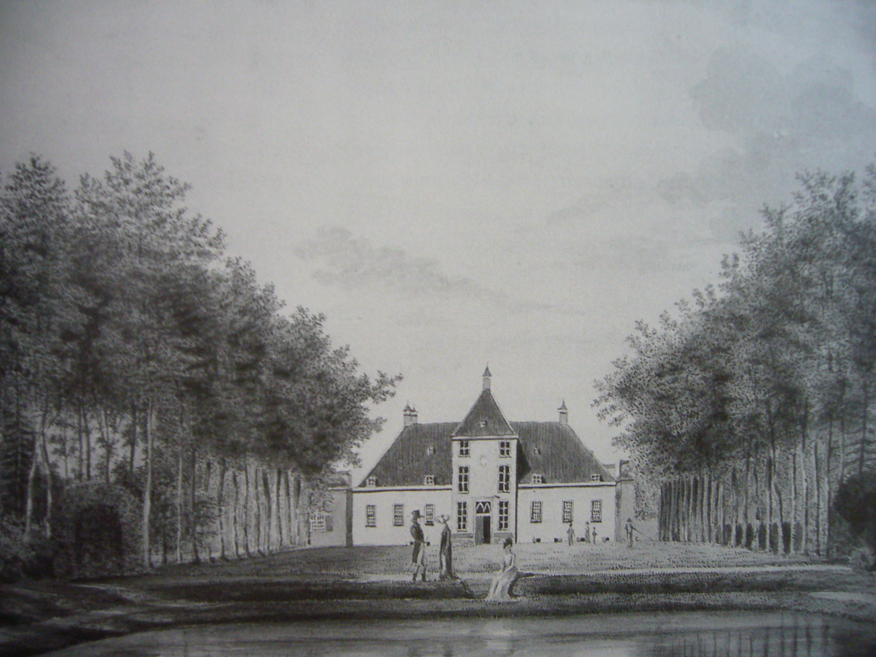 Schoonheten, property in Raalte, Netherlands, where the first Duke of Portland was born in 1647